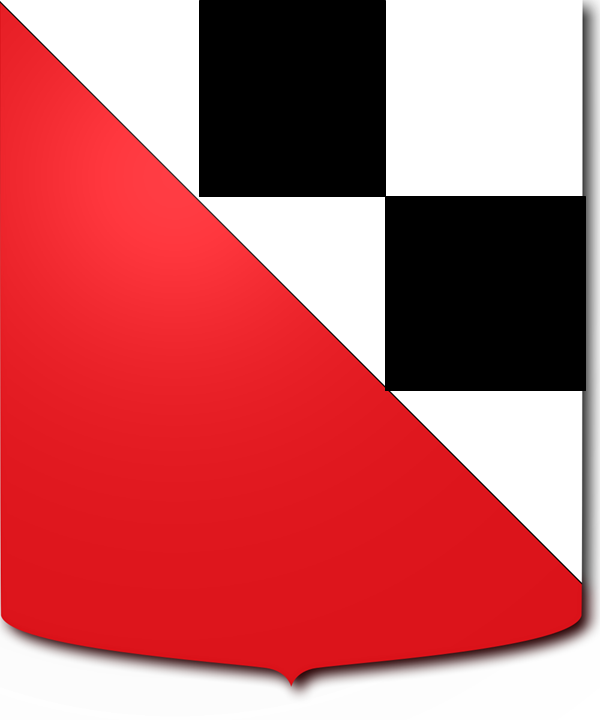 (di) Bernardi shield